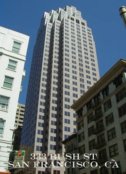 333 Bush Street, San Francisco